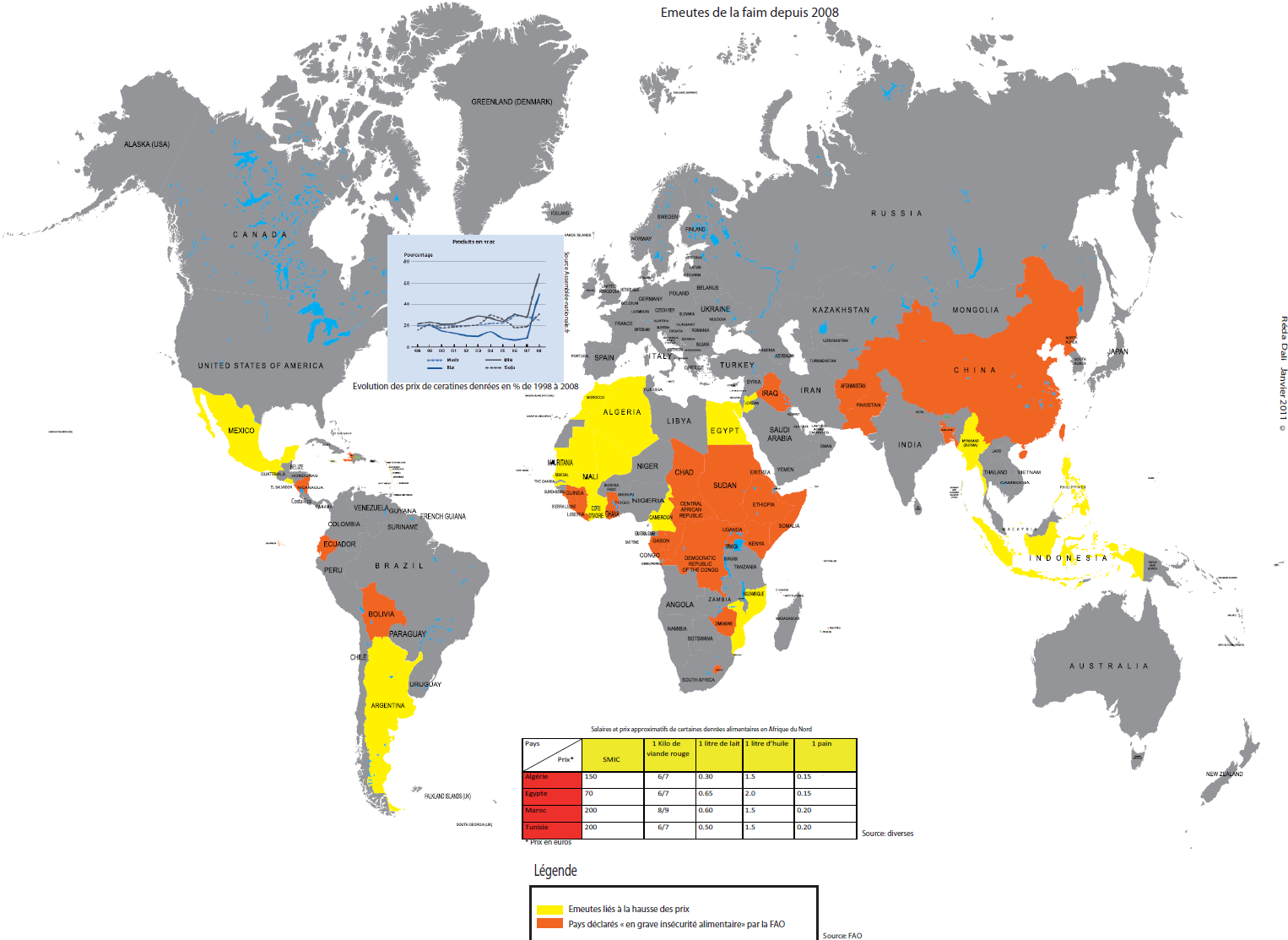 Riot of hunger since 2008 and Arab world